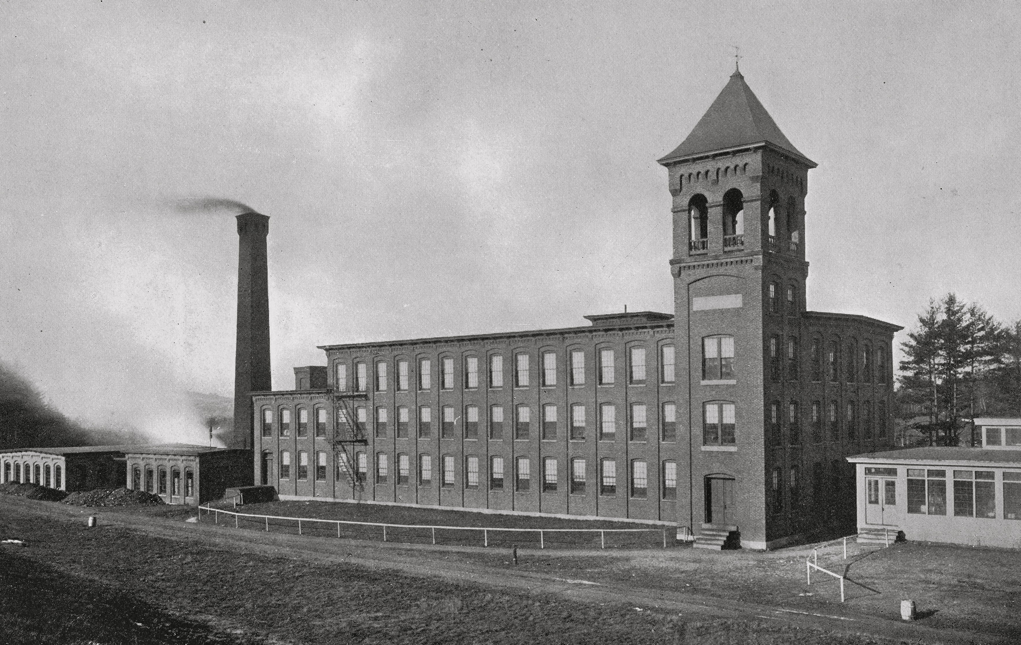 The second cotton mill in Spring Village. It was operational from 1886 to 1929